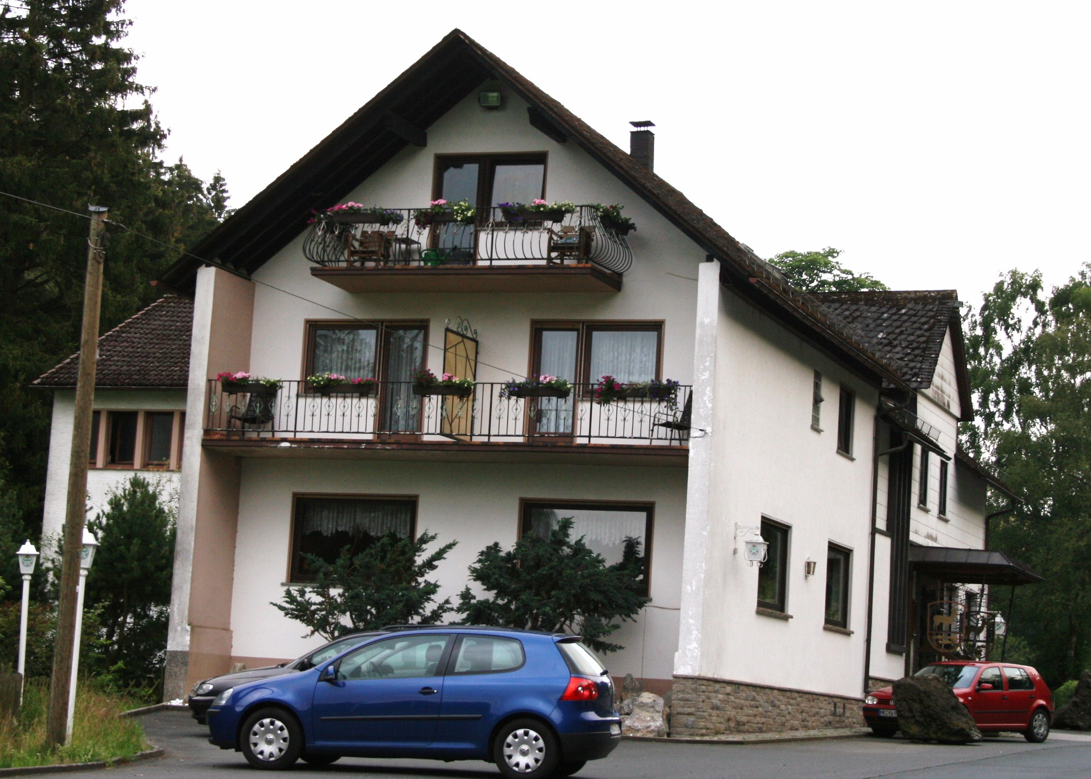 Waldhotel Gille Boxbach nearby the former copper mine Grube Boxbach near the community Wiesenbach, part of Breidenbach, Hesse.